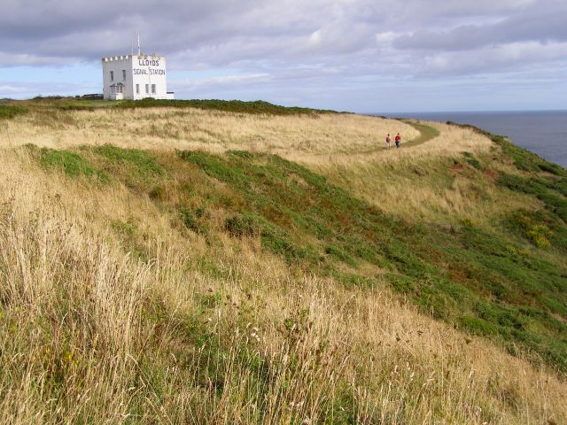 Coast path around Bass Point. The building of Lloyd's signal station dominates this headland, the coast path winds its way around the point. The hottentot fig plant is invading the cliffs here, although I'm not sure if you can see it clearly in this photo.